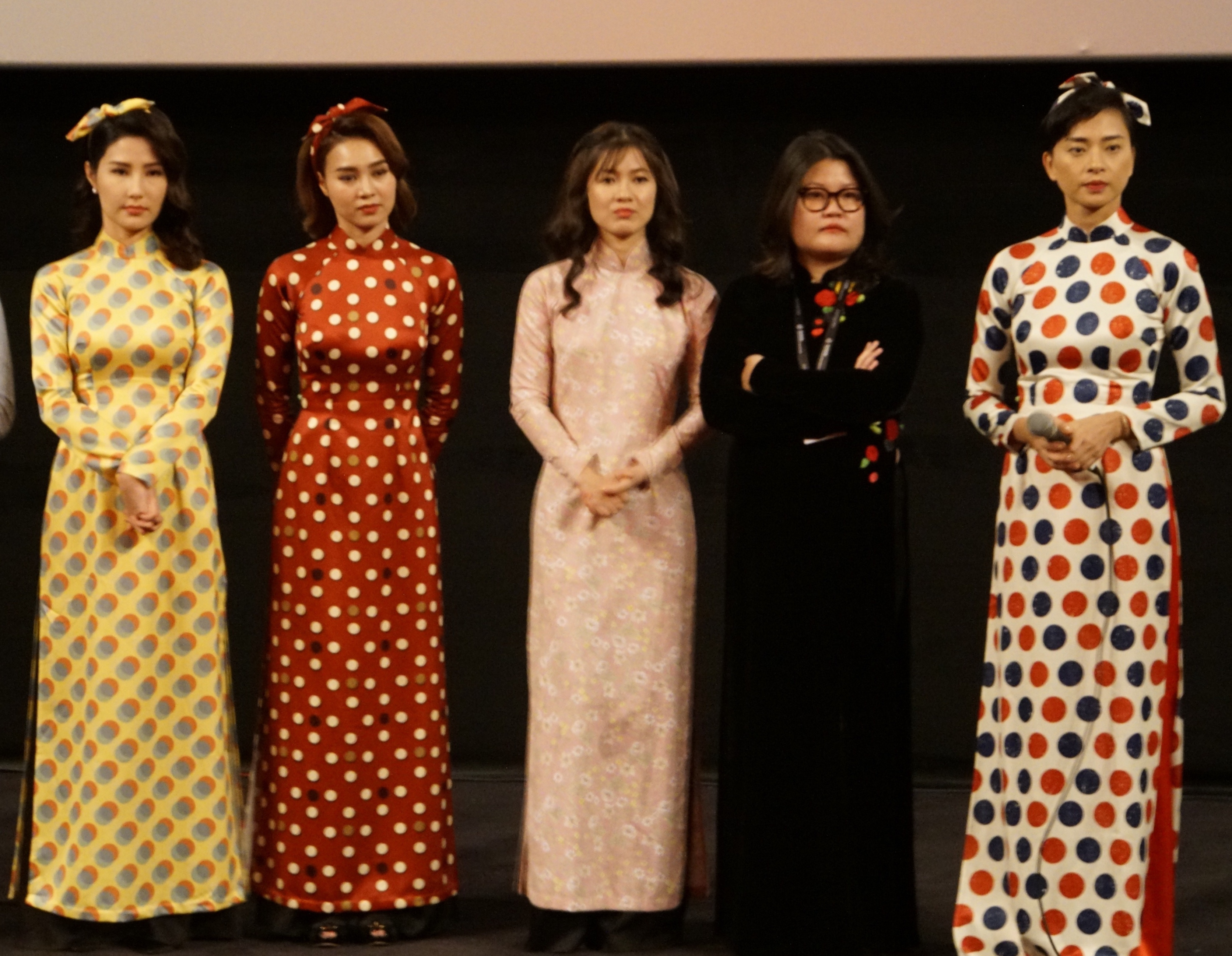 Ekip of Co Ba Sai Gon, female actors and director wearing Ao dai